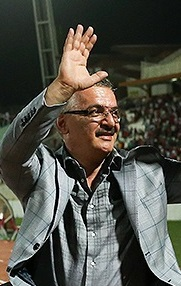 Mohammad Reza Zonuzi